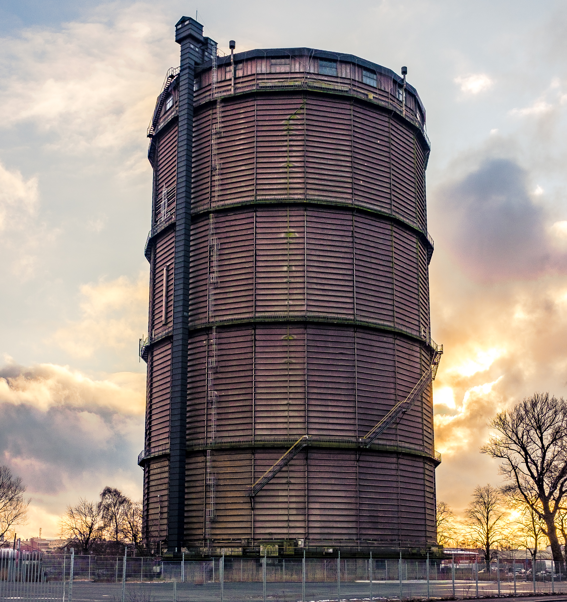 Gasklockan i solnedgång